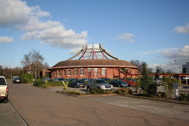 Damon's Diner. Popular American diner by the A46 - "The place for ribs"